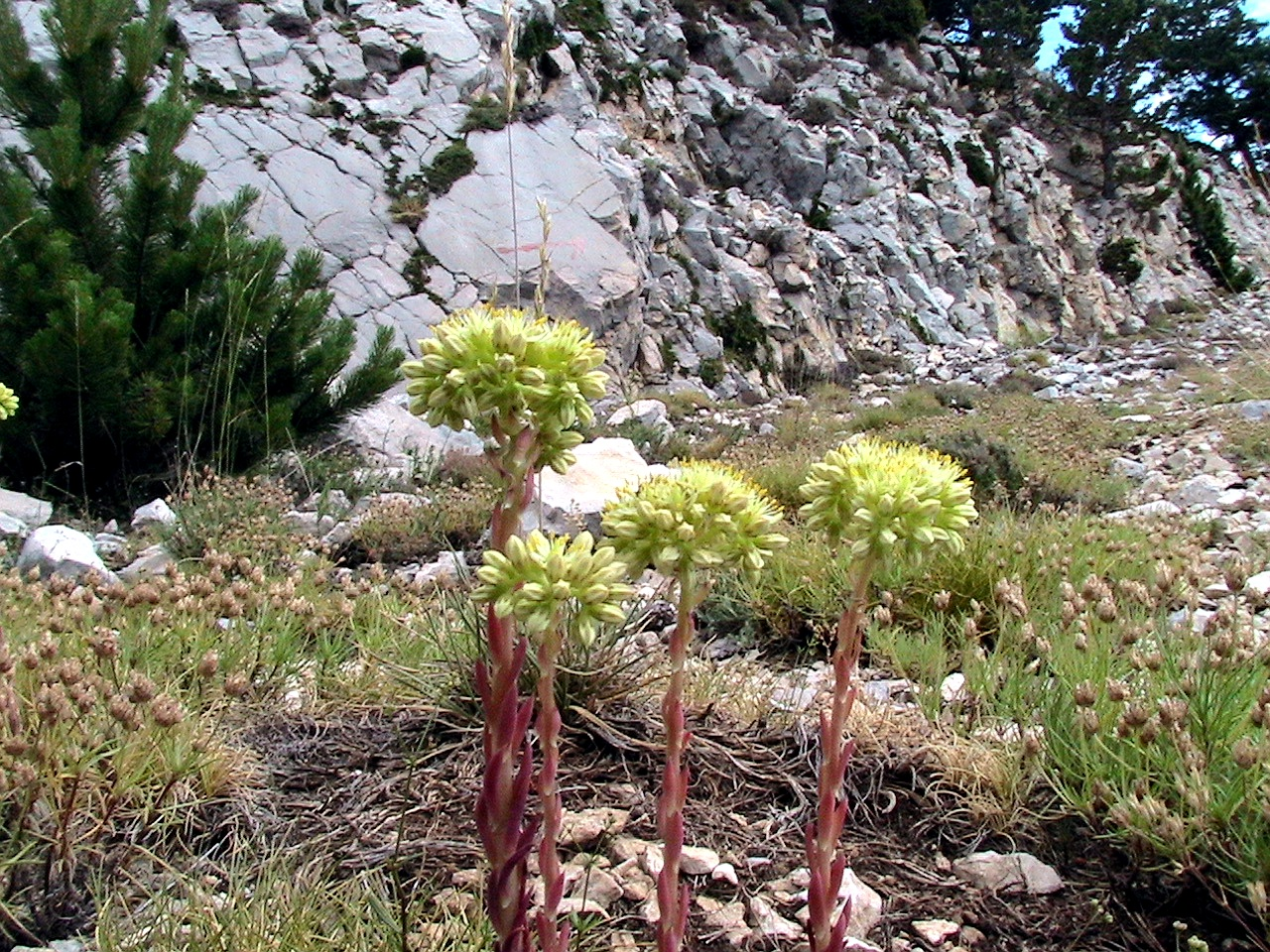 Sedum rupestre. In la Bòfia, Odèn (Solsonès - Catalunya). To 1.830 m. altitude